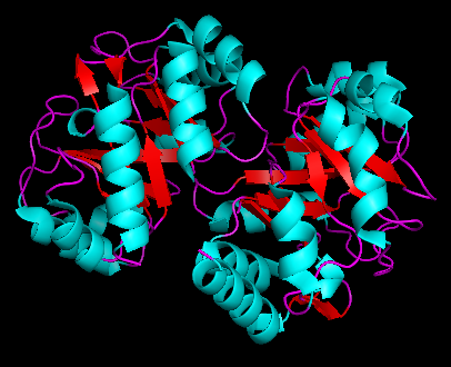 Structure of the enzyme Phosphoribosylanthranilate isomerase, part of the Phenylalanine, Tyrosine, and Tryptophan biosynthesis pathway.